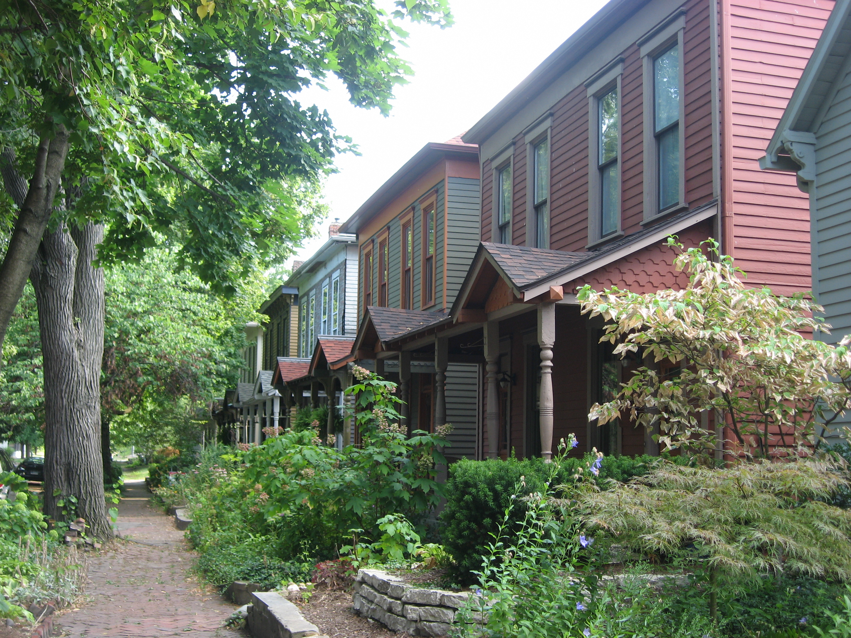 Houses on the western side of the 700 block of N. Dorman Street in Indianapolis, Indiana, United States. All are double shotgun houses built as rentals in 1890. This block is part of the Cottage Home Historic District, a historic district that is listed on the National Register of Historic Places.